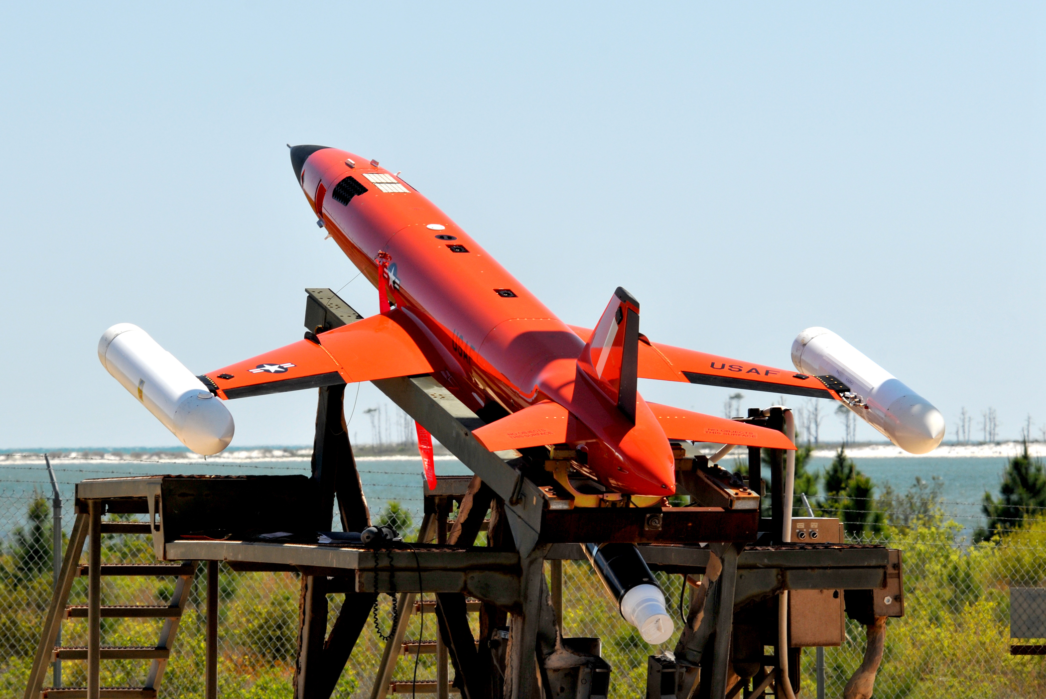 A BQM-167A Subscale Aerial Target is ready to be launched from Tyndall Air Force Base Launch Facility for the 104th Fighter Wing, Massachusetts Air National Guard, on April 13, 2011. Deployed to Tyndall Air Force Base in Florida, the 104th is participating in the Weapons System Evaluation Program (WSEP). The two week training and evaluation program is important for ground crews to test their maintenance systems and processes while loading live munitions on F-15 Eagles, as well as critical live training for the F-15 pilots to employ air-to-air missiles against real world targets such as the BQM-167A Subscale Aerial Target. (U.S. Air Force Photo by: Master Sergeant, Mark W. Fortin)